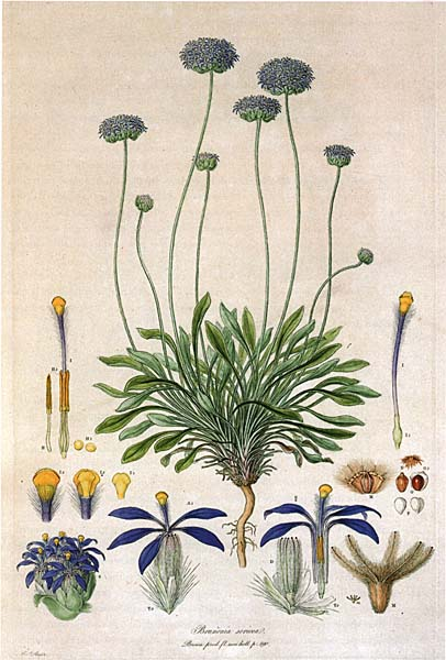 This is a scan of Plate 10 from Ferdinand Bauer's Illustrationes Florae Novae Hollandiae. The plant featured is Brunonia australis (Blue Pincushion), then known as Brunonia sericea.